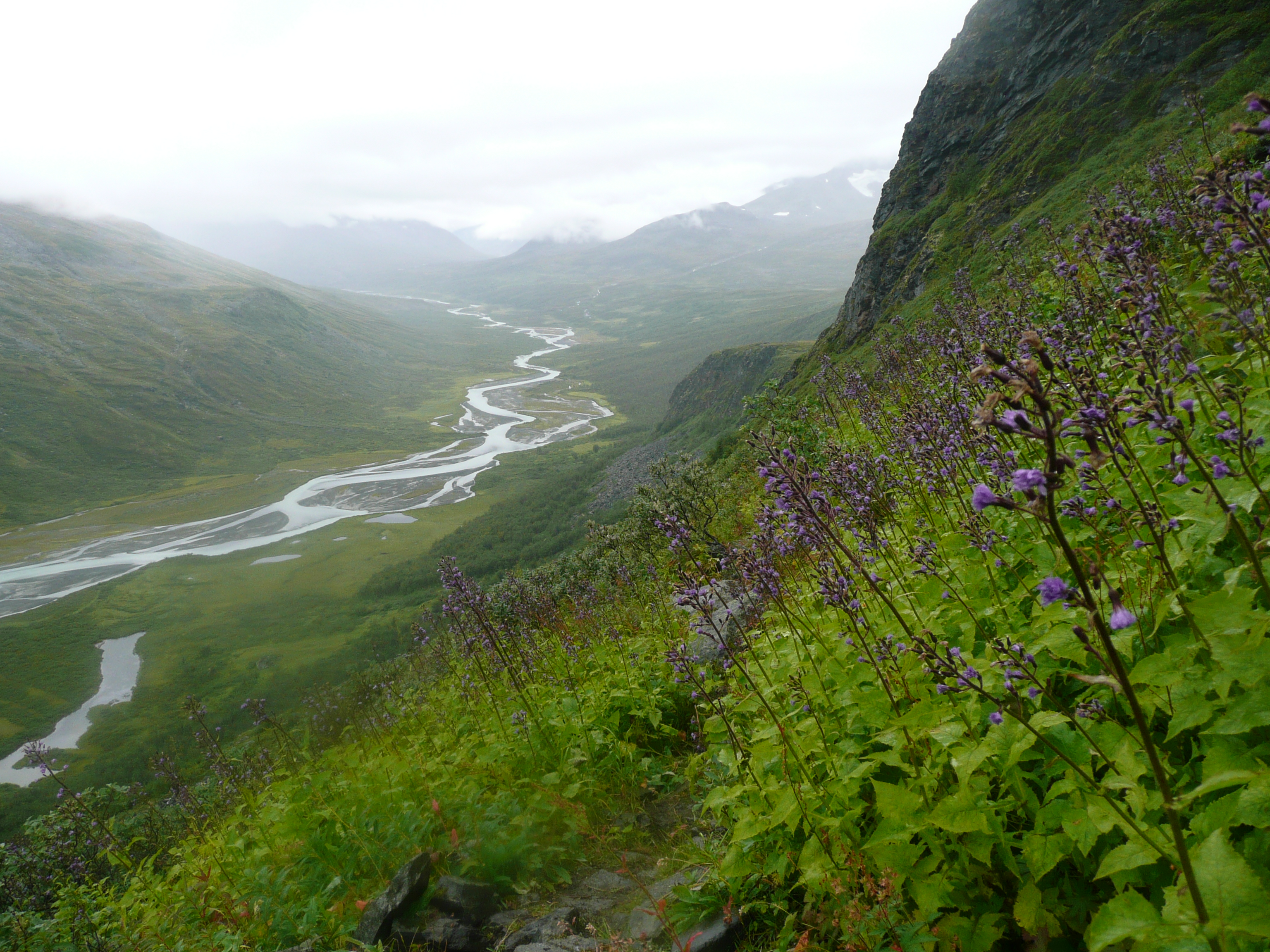 Cicerbita alpina in Sarek national park, Swedeb